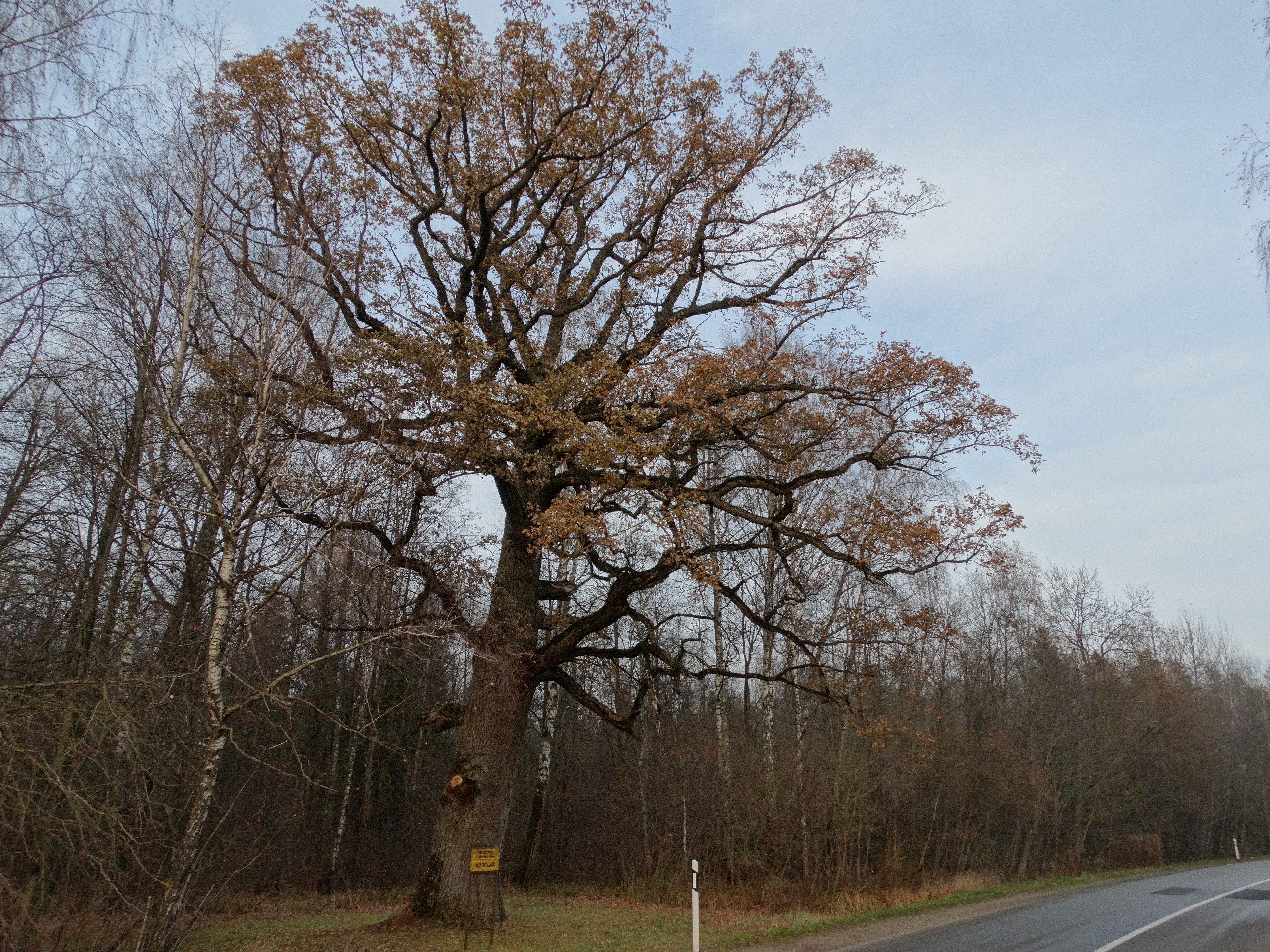 Oak tree in Gedučiai, Pasvalys District, Lithuania